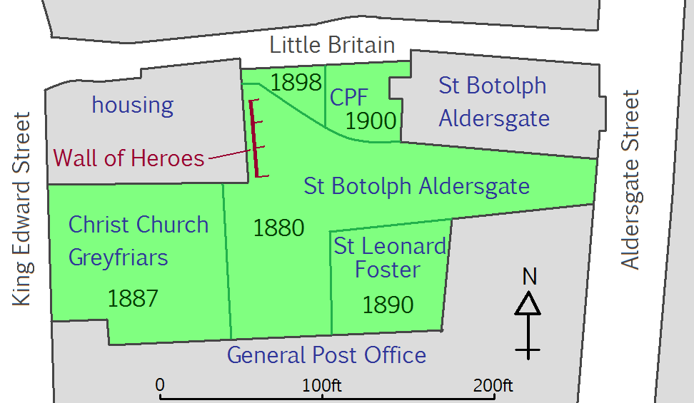 Original ownership of the land which became Postman's Park, London. The area marked "CPF" was the site of former housing, owned by the City Parochial Foundation